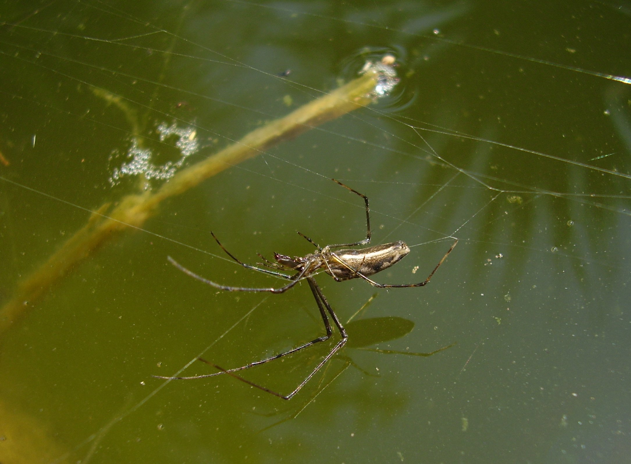 A long-jaw orbweaver spider, Tetragnatha laboriosa, ventral view - water-striding, in Karkur, Israel.